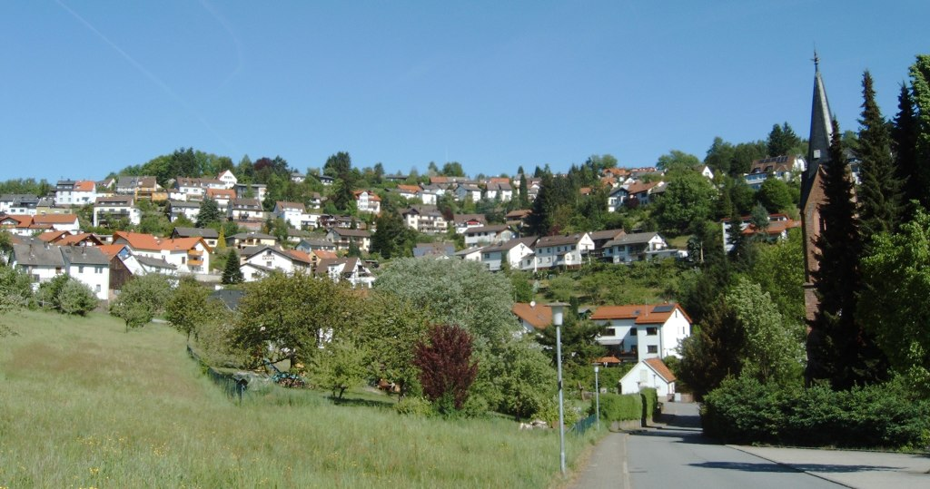 Wilhelmsfeld